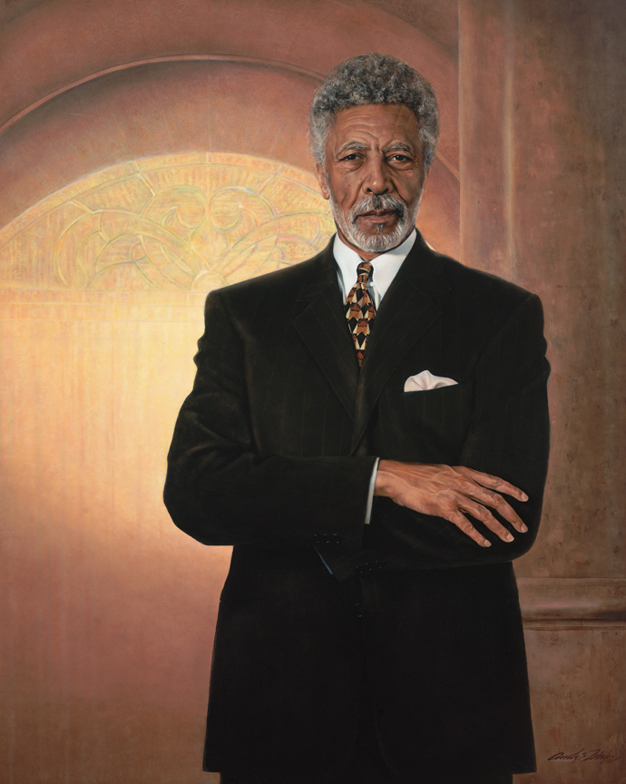 Portrait of Ron Dellums, member of the United States House of Representatives.